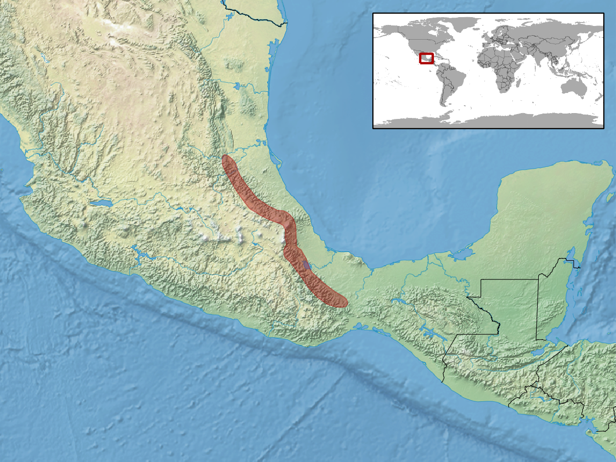 geographic distribution of Atropoides nummifer (Native: Mexico)